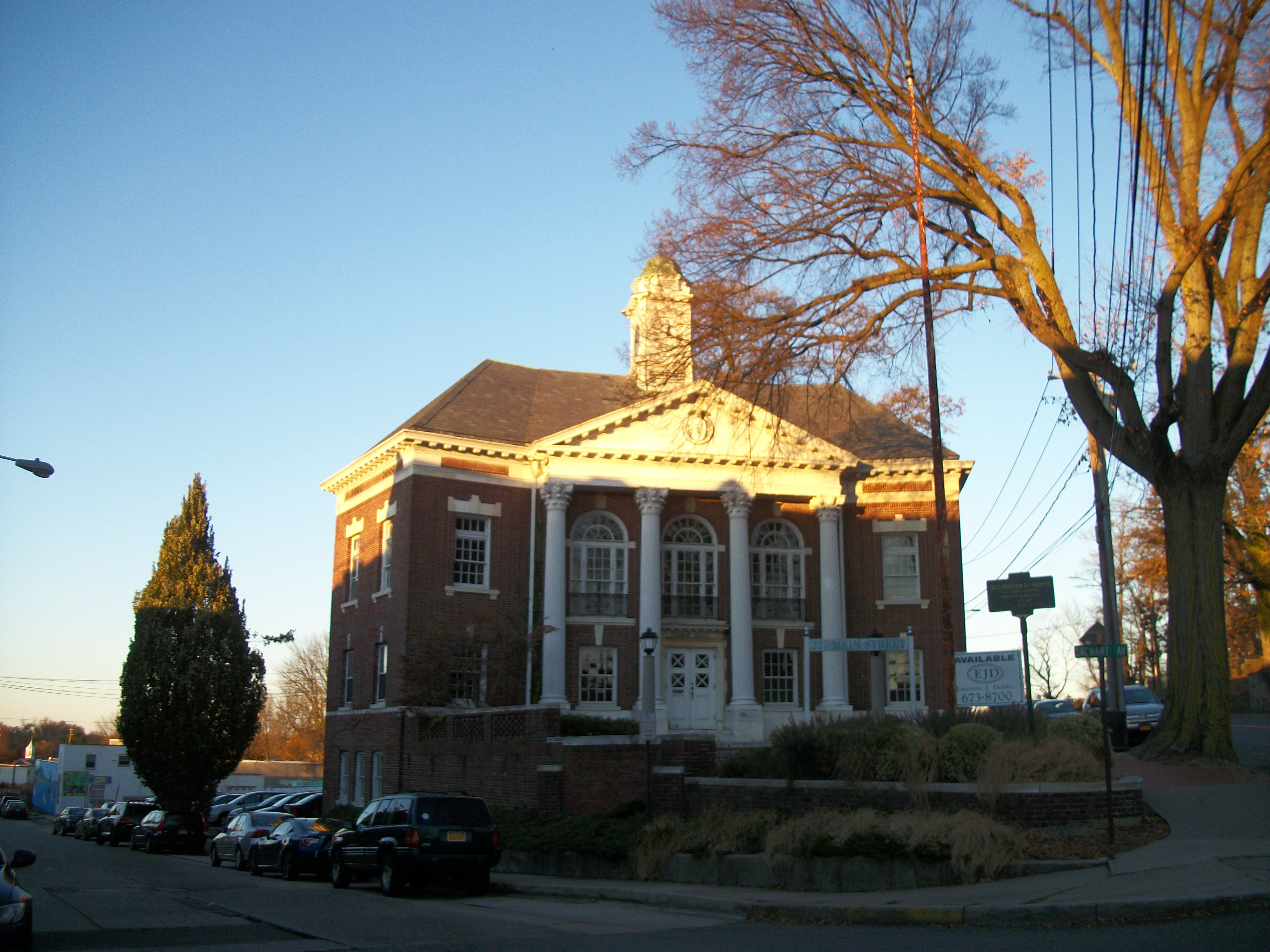 The Old Huntington Town Hall, the centerpiece of the Old Town Hall Historic District in Huntington, New York. Further details and a possible rename in the future.